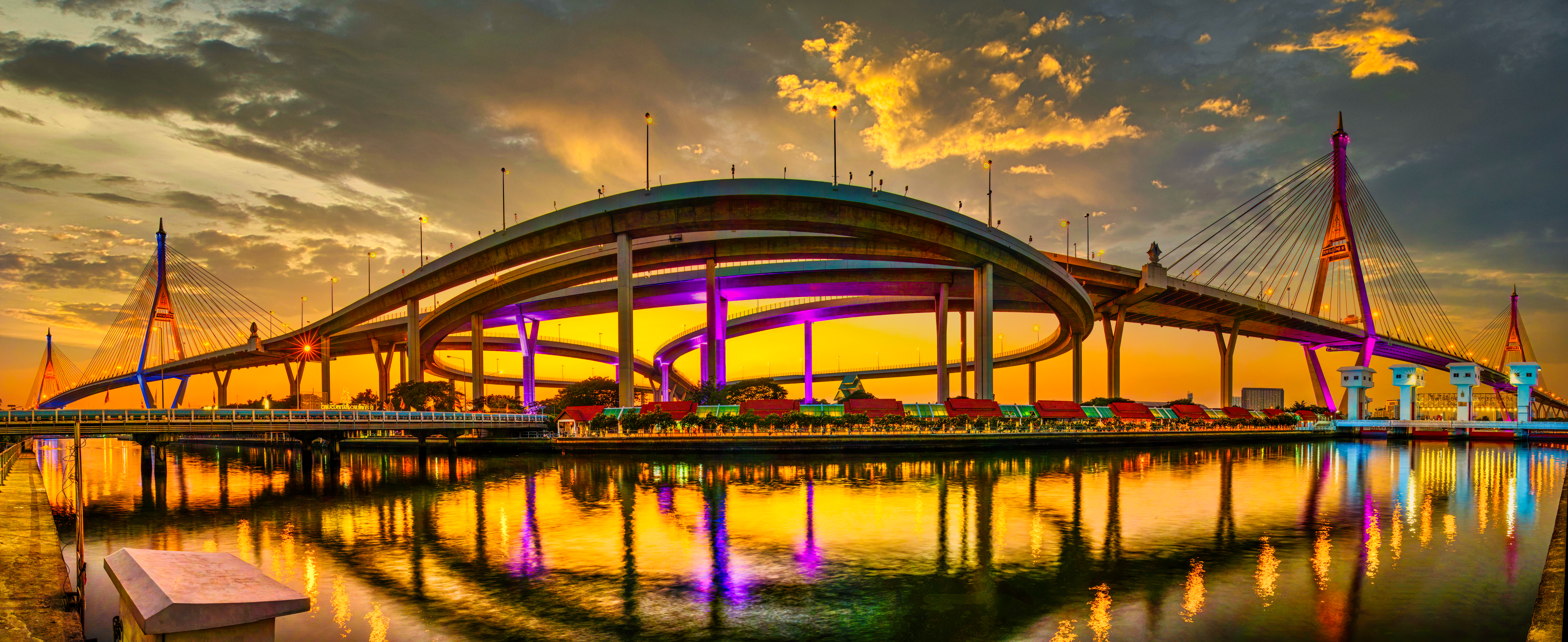 Photo made in 2020 by me